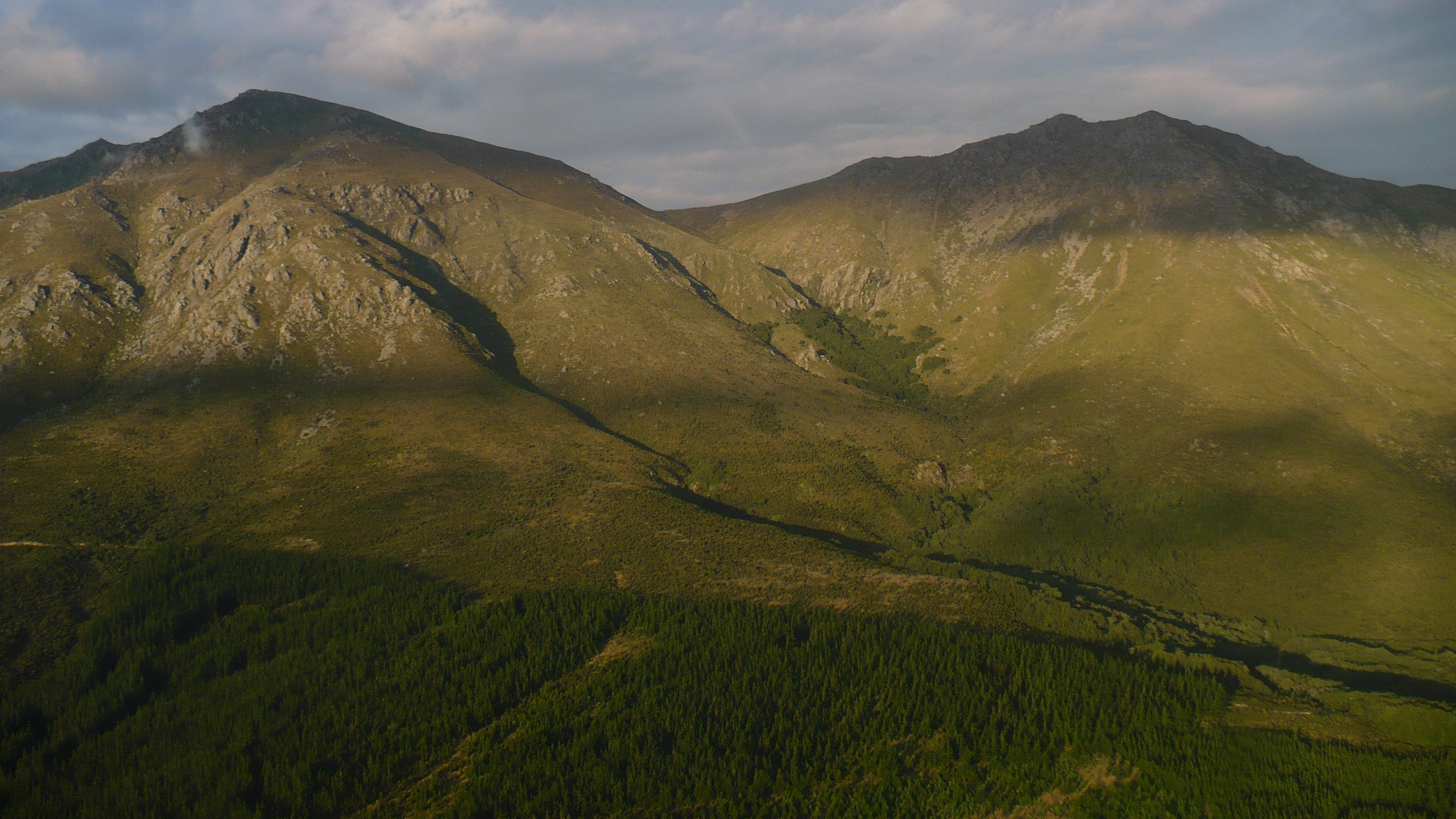 Southern slops of West Dome from helicopter